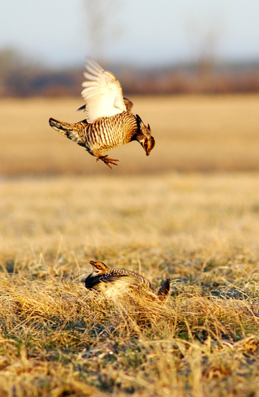 Prairie chickens (Tympanuchus cupido)